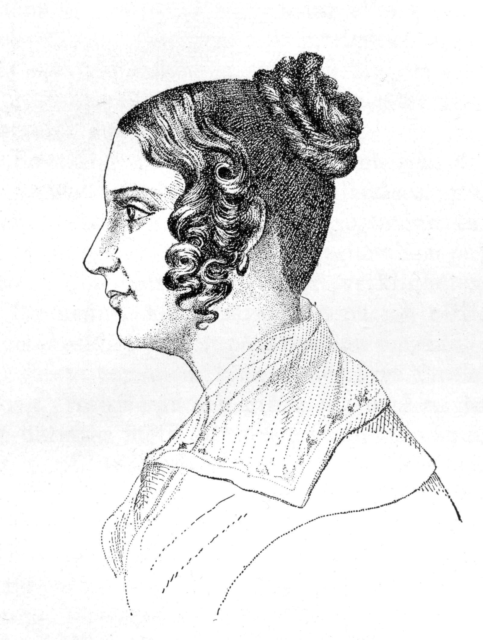 Sophie von Knorring, Swedish author.